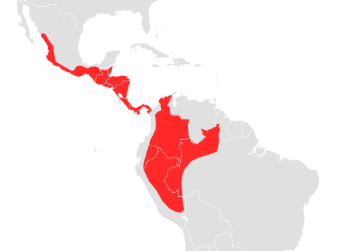 Distribution of Glossophaga commissarisi